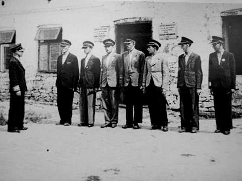 Jewish Ghetto Police in Szydłowiec, Poland